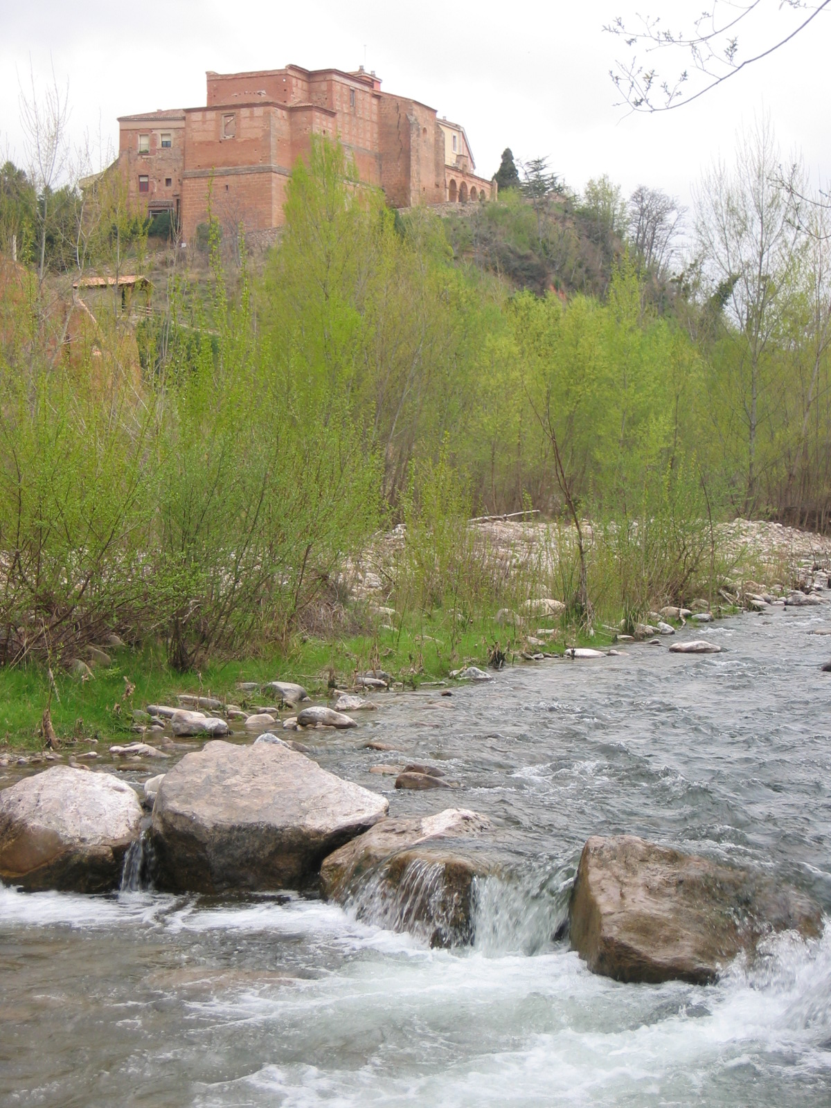 Situation of the Monasterio de Nuestra Señora de Vico on top of the mountain near the River Cidacos. Municipality of Arnedo, La Rioja, Spain.